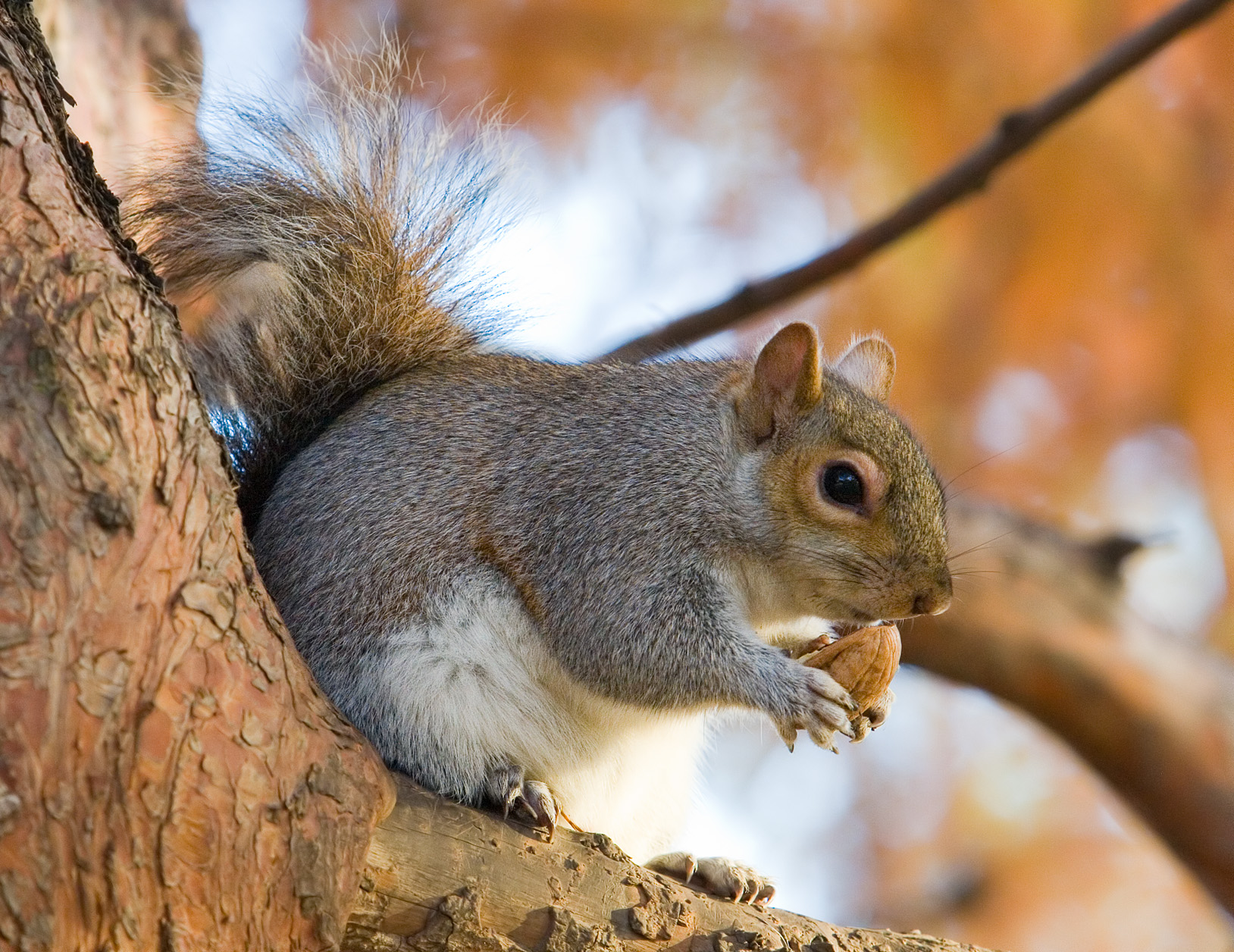 An Eastern Grey Squirrel (Sciurus carolinensis) in St James's Park, London, England. Taken by myself with a Canon 5D and 70-200mm f/2.8L lens at 200mm, f/6.3 and 1/100sec at ISO 1600.